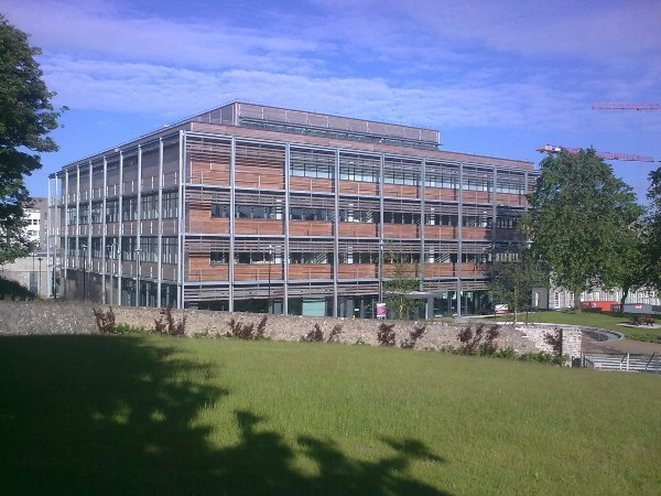 Suttie Centre for Teaching and Learning in Healthcare, Foresterhill, Aberdeen. The building, a joint project between the University of Aberdeen and NHS Grampian, opened in 2009.